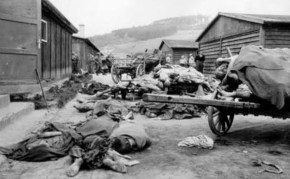 U.S. Army troops serving with the U.S. Signal Corps photographed the bodies of deceased prisoners outside of barracks at the Mauthausen concentration camp in Austria on May 8, 1945 following that camp's liberation (U.S. National Archives and Records Administration, public domain).